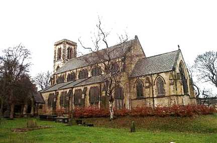 Cleckheaton, St John The Evangelist Church.